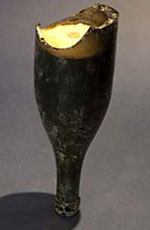 The remains of one of surveyor Cecil Twisden Bedford's bottles used to mark the Queensland-Northern Territory border mileposts